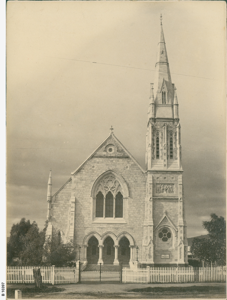 Clayton Congregation Church, circa 1897